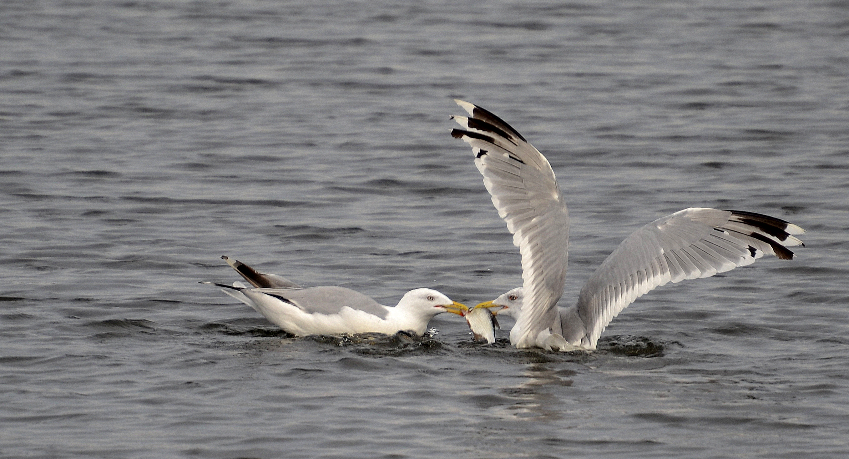 Fish is usually eaten by the European Herring Gull.